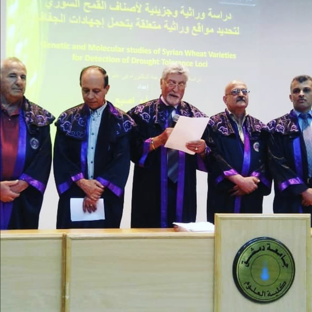 Prof. Dr. Aldahhak heading a committee for a PhD disputation (Damascus, 2019)